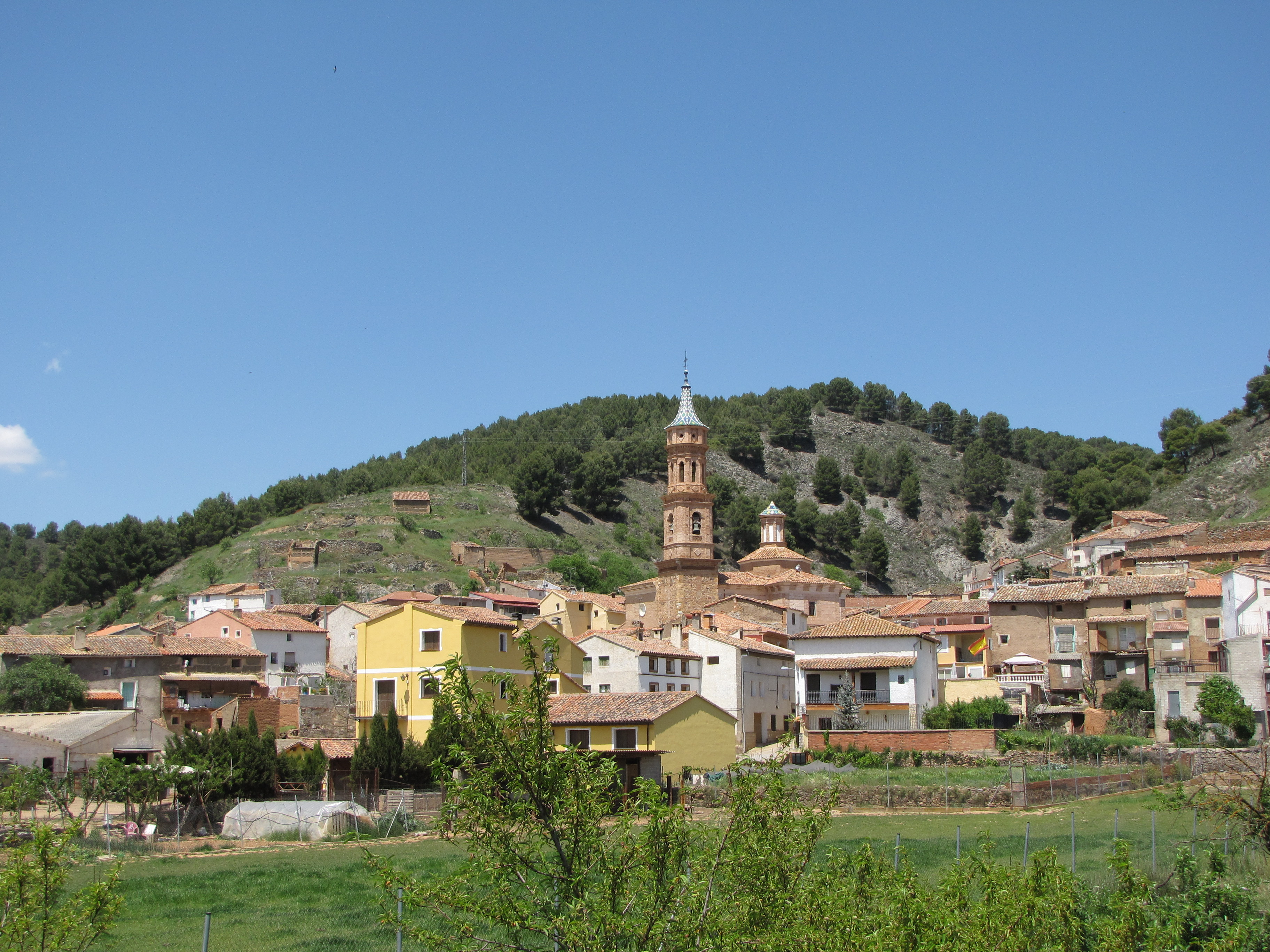 Manchones is a pueblo in the province of Zaragoza, Aragón, Spain. It sits on the banks of the river Jiloca